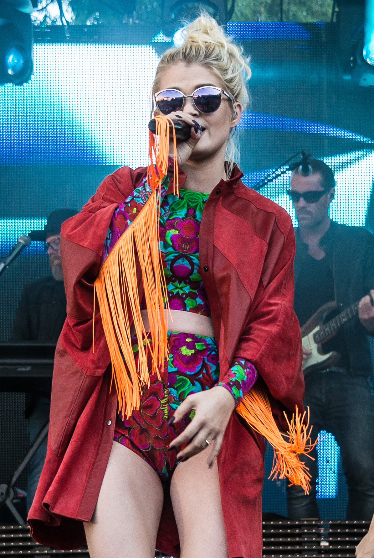 Margaret at the 2016 RIX FM Festival in Kungsträdgården in Stockholm.